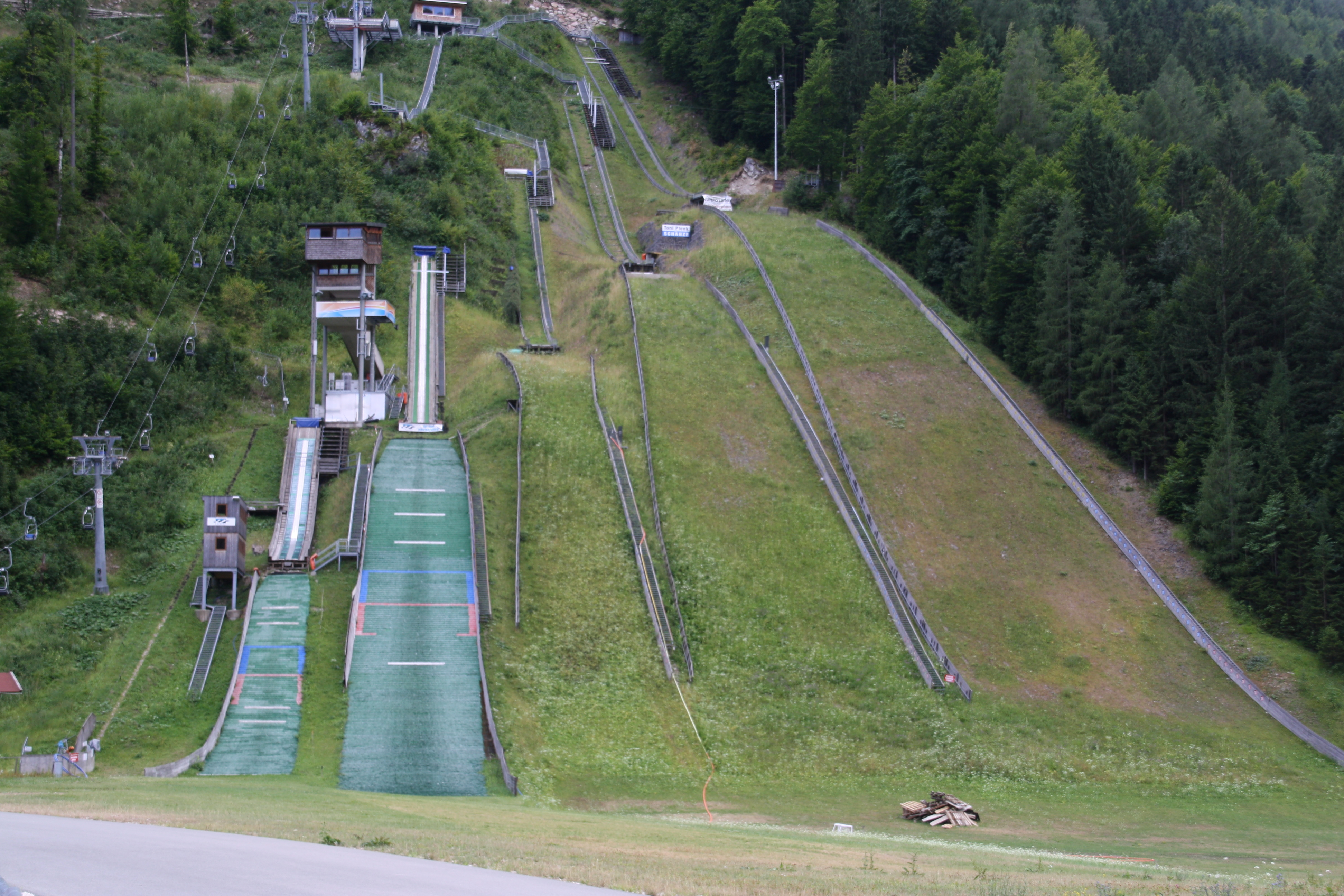 Ski jumping hills Chiemgau-Arena Ruhpolding